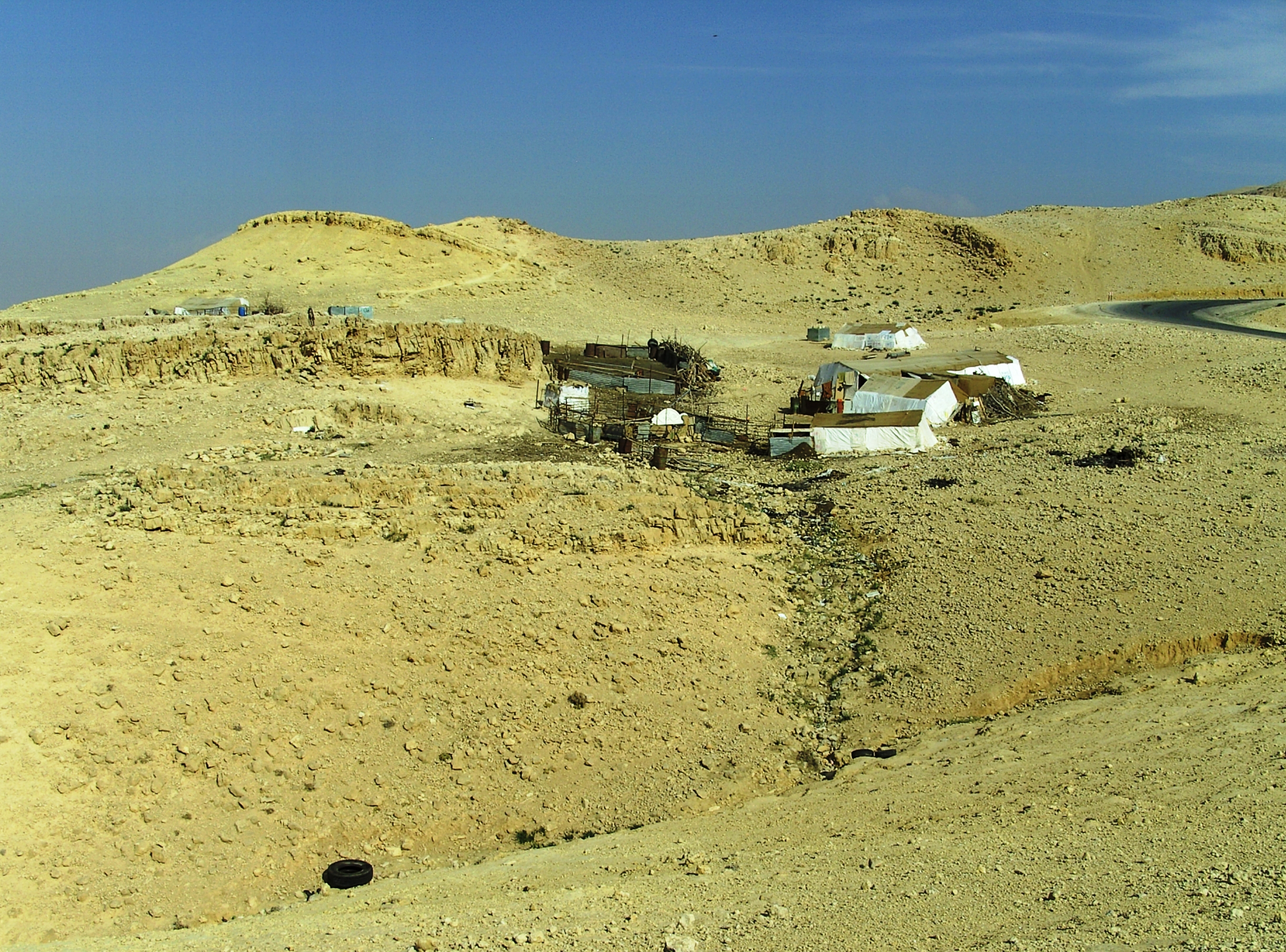 Bedouin tents in Jordan.